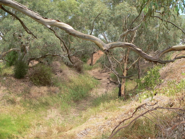 The Gawler River at Angle Vale when dry in the middle of summer. Same spot as the image 'Gawler River flood at Angle Vale 2005', just 20 metres upstream.